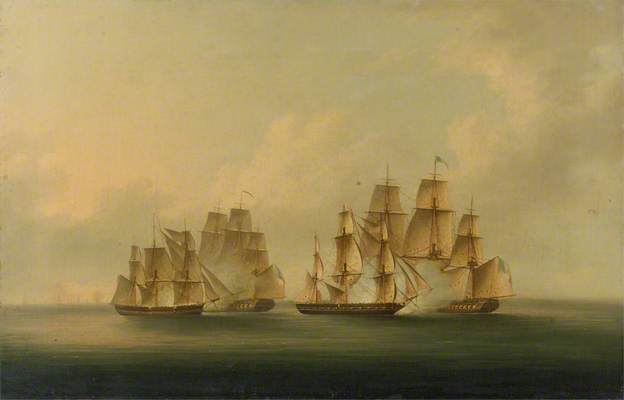 (c) National Maritime Museum; Supplied by The Public Catalogue Foundation